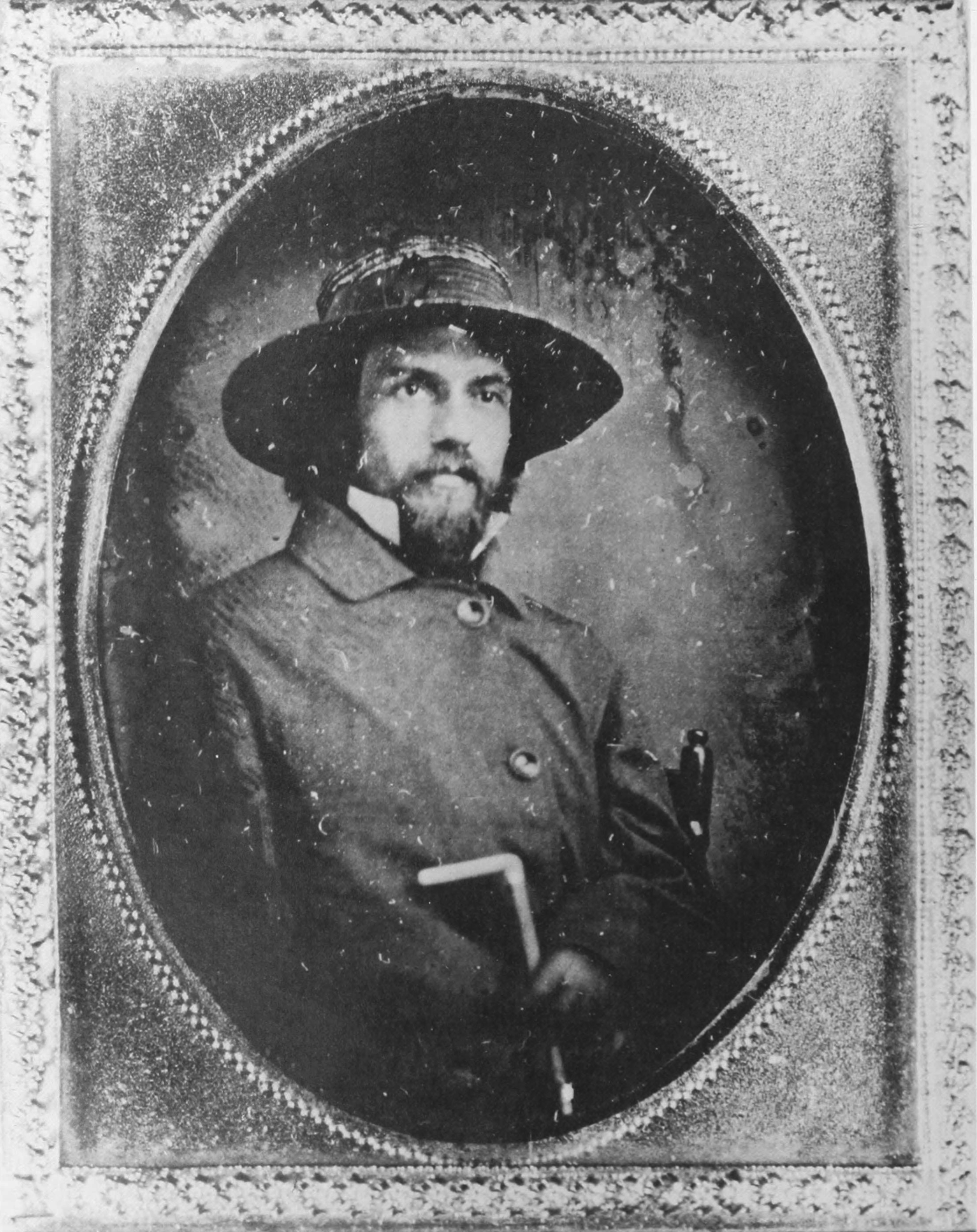 This is an image of American architect Thomas Alexander Tefft (1826-1859) that appeared in an article published in the Providence (R.I.) Journal on January 25, 2013.